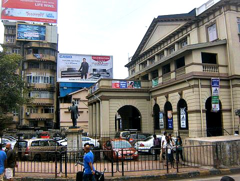 This tank is not there at present.